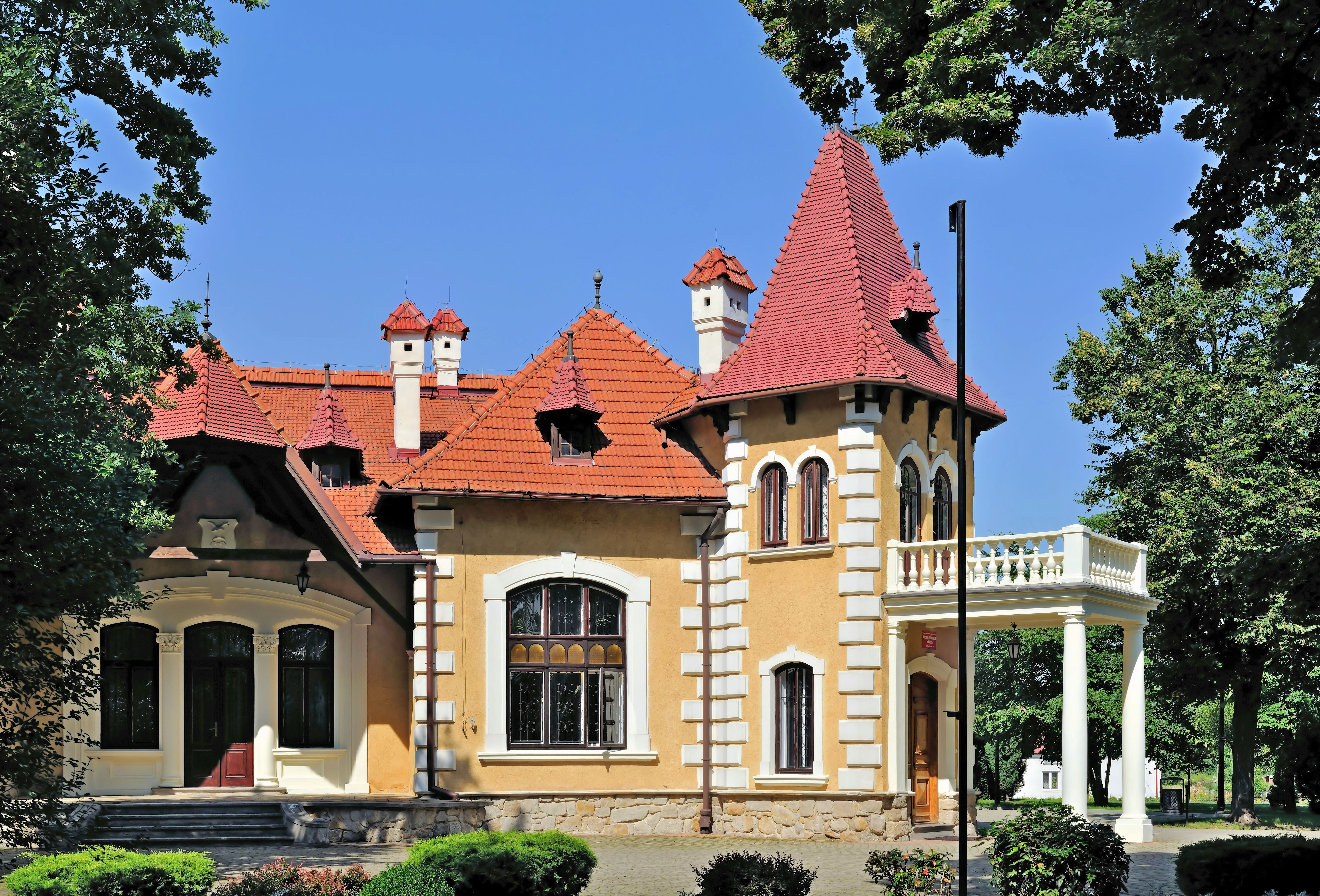 Manor house of family Oborski in Mielec, Poland